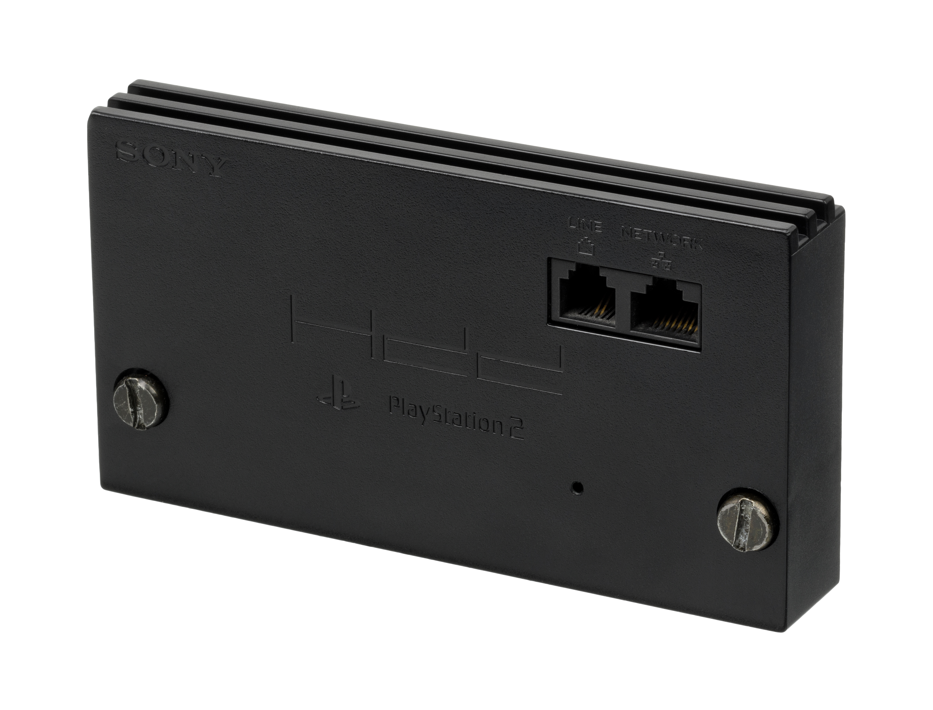 The front of the network adapter for the original "fat" model of the Sony PlayStation 2 video game console. This allowed the console to connect to the internet through either a dialup or broadband connection. It is also required to connect a hard drive to the PS2.